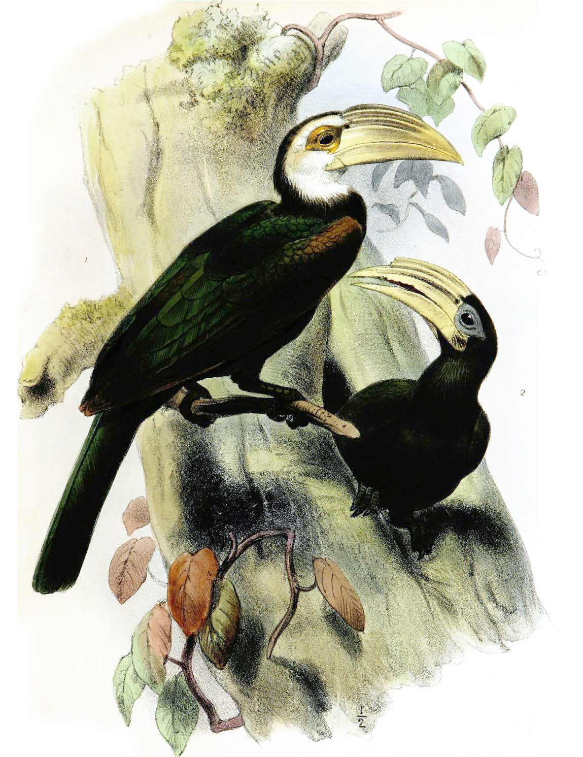 Penelopides exarhatus (male 1 and female 2)